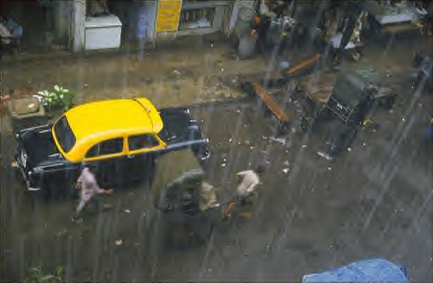 This is a view of rain falling on the streets of Kolkata